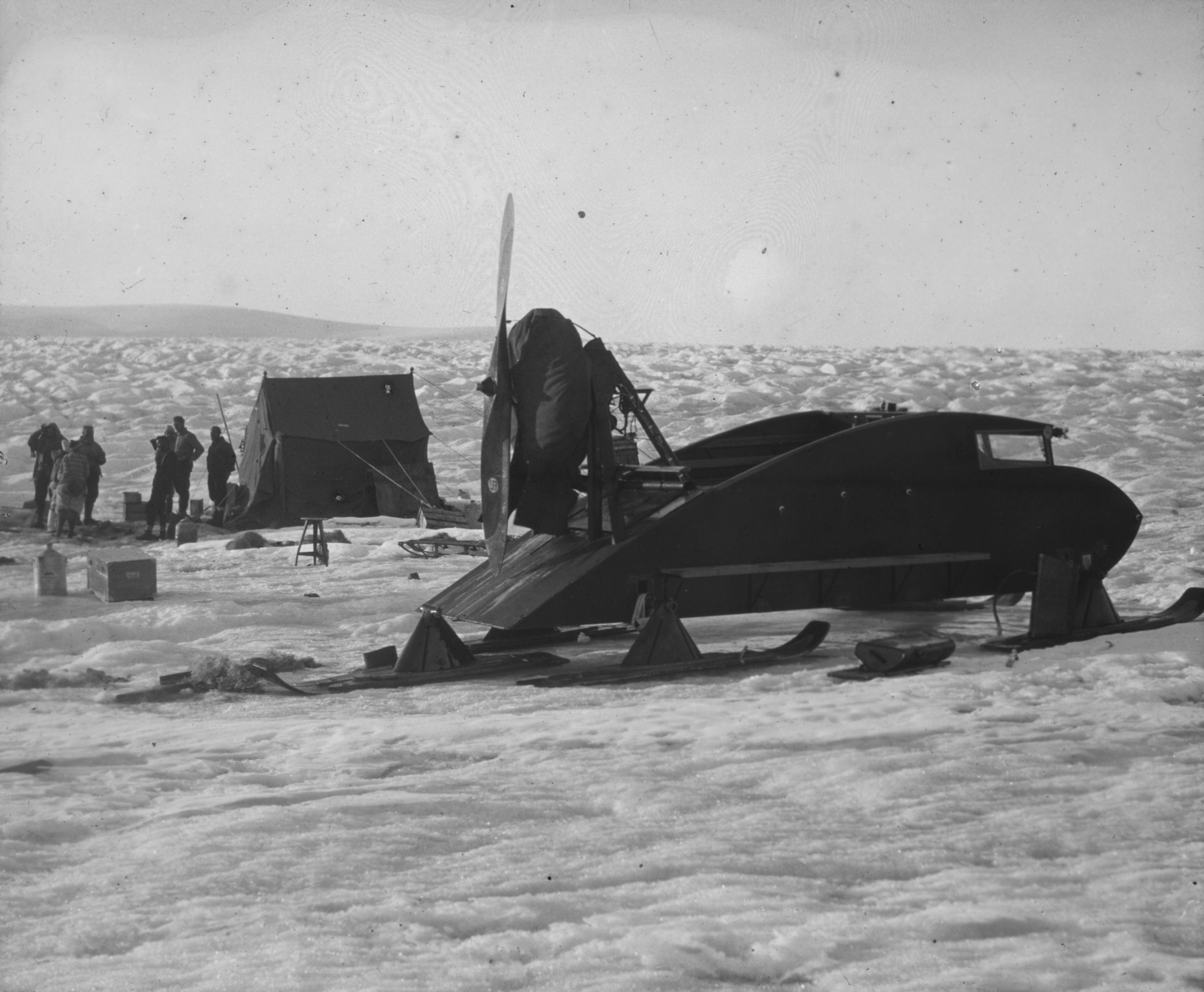 Photographs of the German expedition and overwintering in Greenland in 1930/31